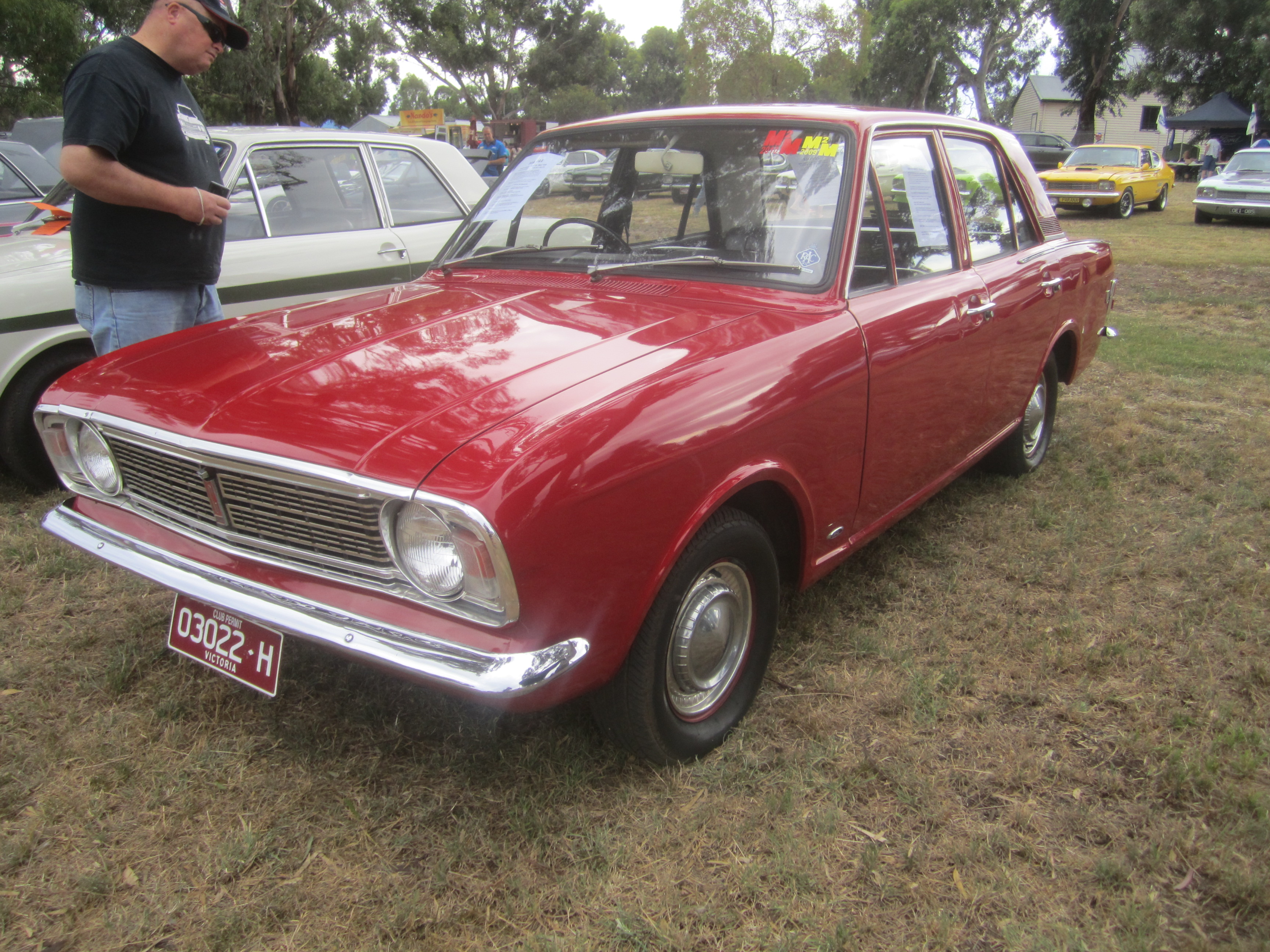 The Mk II Cortina, built from 1966-70 was a squarer, boxier shape than the Mk I. Engines were initially carried over from the Mk I but replaced in 1967 with the 1600 with the cross flow head. A mild facelift in 1969 saw separate F O R D letters on bonnet and boot, a black grille and chrome above and below the tail lights. In England and NZ the models were; Base, Deluxe, Super, GT and in 1967, 1600E (NZ GTE). Australian models were 220, 240, 440, 440L, GT and GTL. The 440 was the base model 4 door, this car still with no radio or external rear view mirrors.